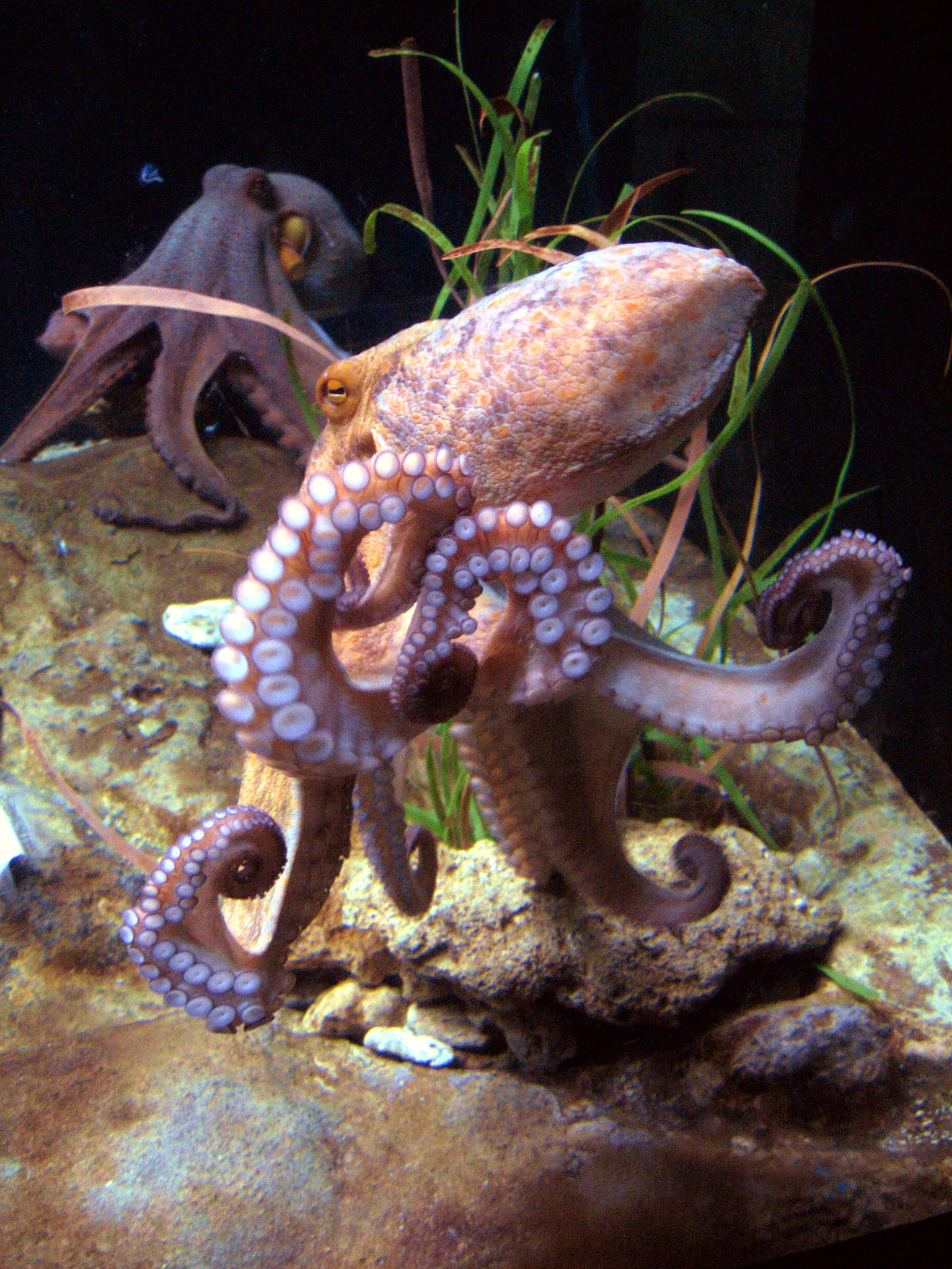 Octopus vulgaris Common Octopus - L'Aquarium de Barcelona